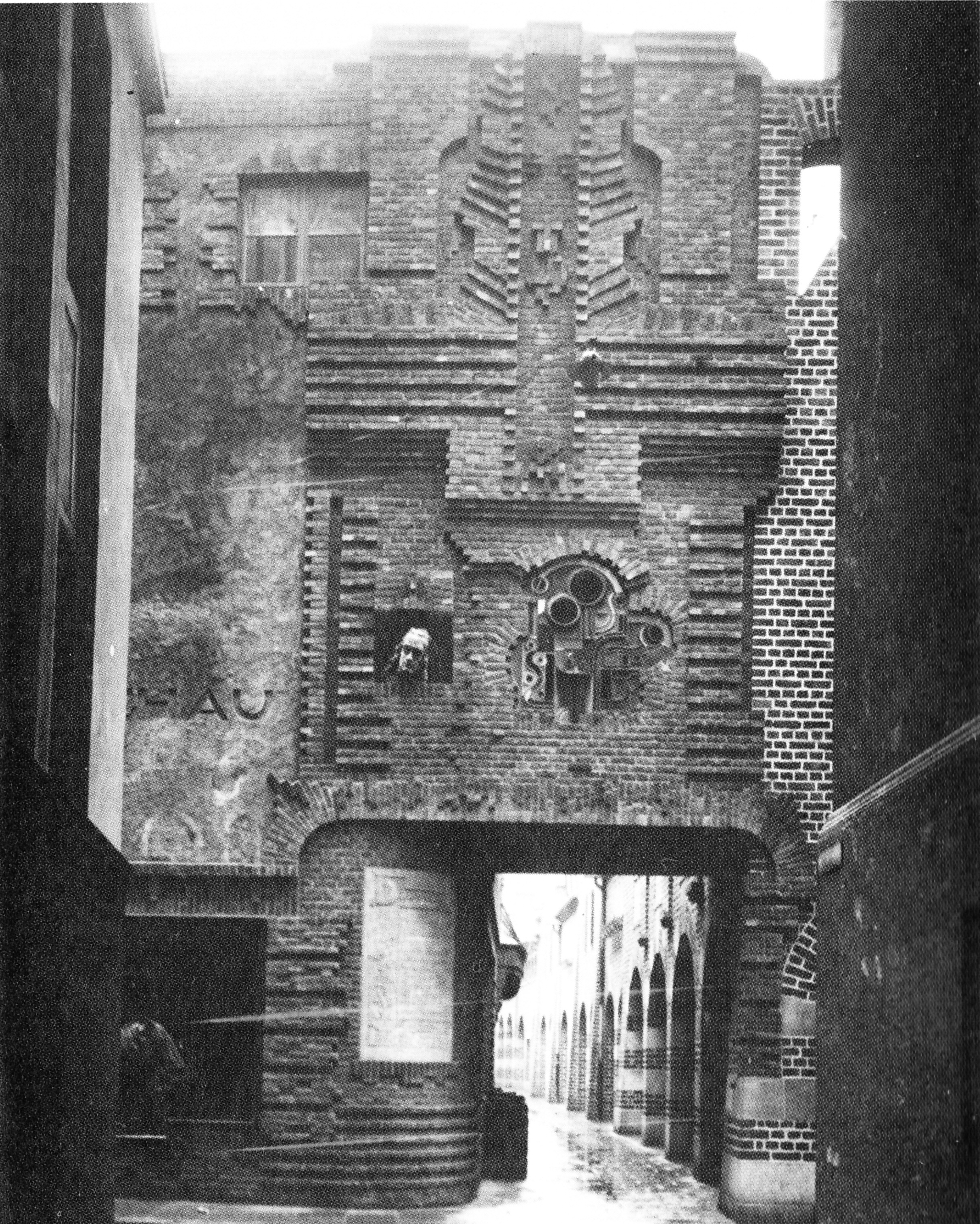 Entrance of Böttcherstrasse Bremen, Position of later Relief "Lichtbringer, 1927